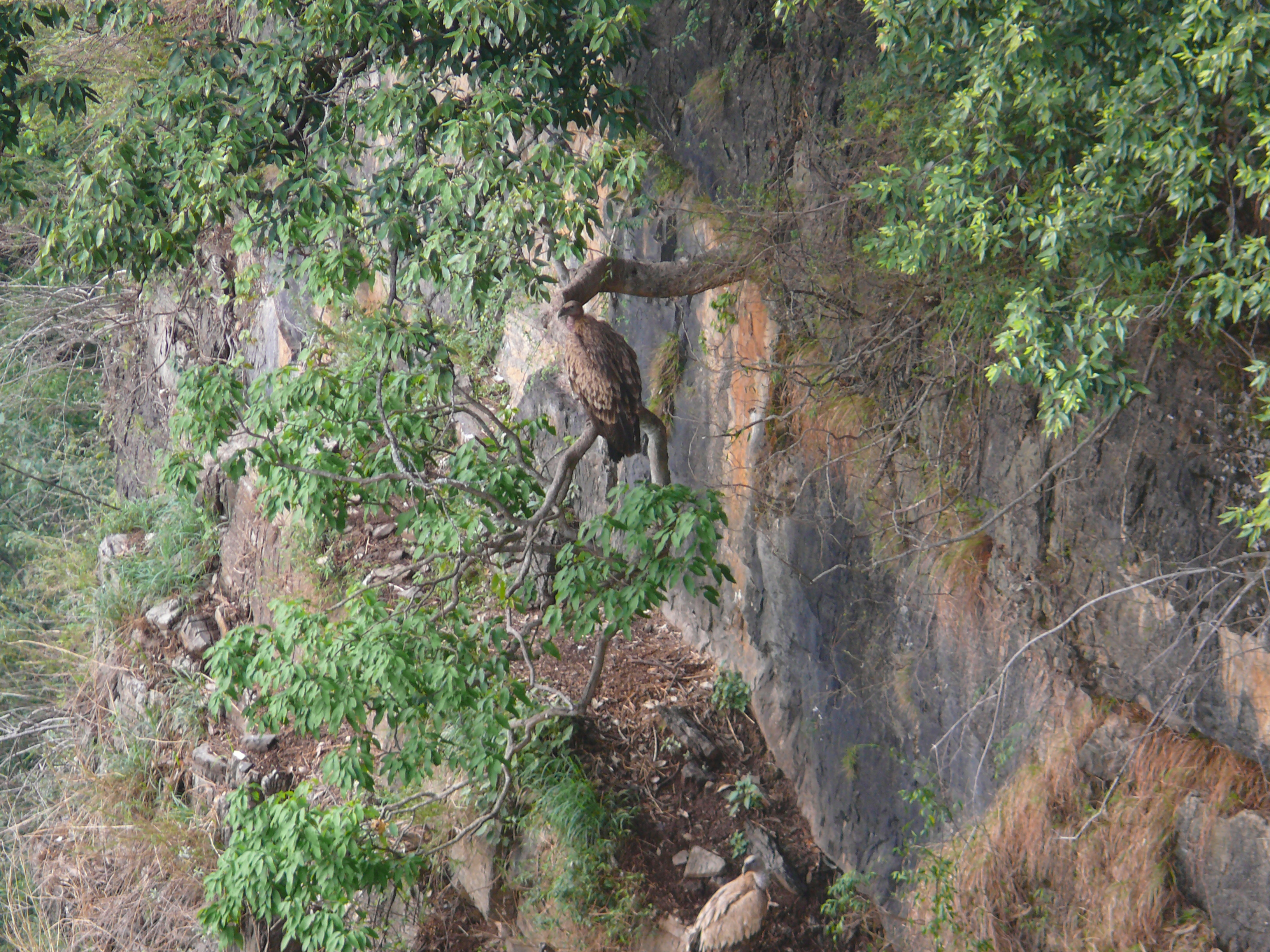 Himalayan Griffon (Himalayan Vulture) - Gyps himalayensis